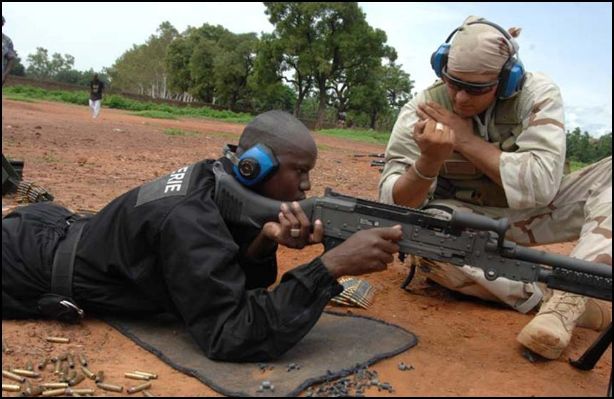 BAMAKO, Mali — U.S. Navy Gunner’s Mate 2nd Class William Flores, assigned to Mobile Security Detachment Twenty-One from Portsmouth Va., instructs a Malian police officer during a small arms exercise at the Gendarme training range here, Aug. 22 prior to the beginning of Flintlock 2007. The exercise, meant to foster relationships of peace, security and cooperation among the Trans-Saharan nations, is part of the Trans-Sahara Counterterrorism Partnership, an integrated, multi-agency effort of the U.S. State Department, U.S. Agency for International Development and the U.S. Defense Department. (Department of Defense photo by Air Force Tech. Sgt. Roy Santana)